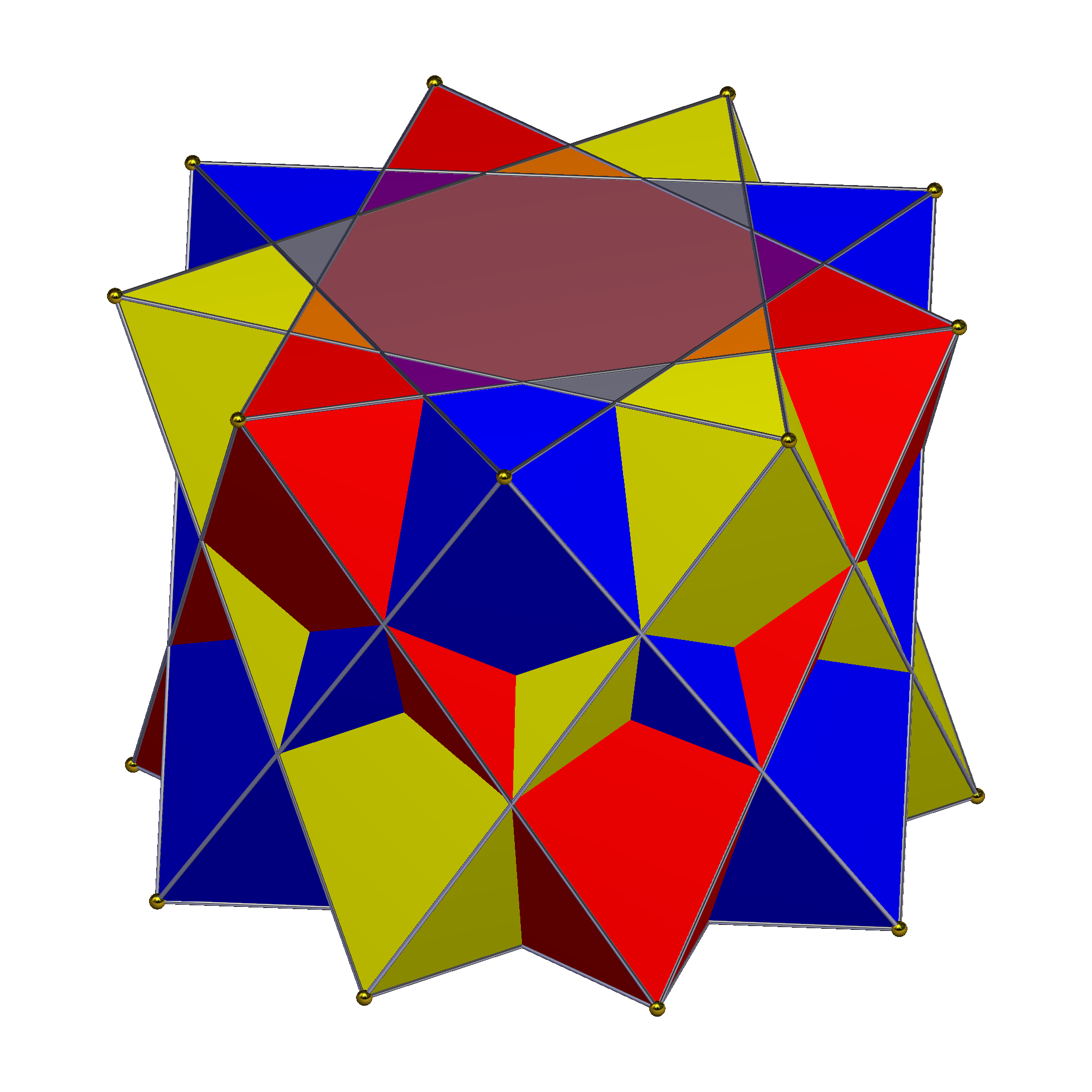 Compound three triangular antiprisms